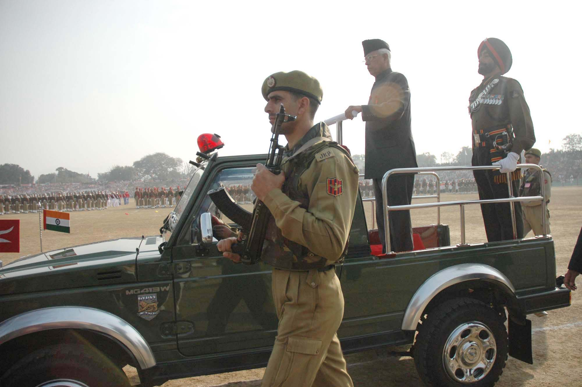 Jammu, January 26 Jammu and Kashmir Governor N. N Vohra inspecting the parade during the 61st Republic Day celebrations at M.A Stadium in Jammu on Tuesday. Photo by Vishal Dutta